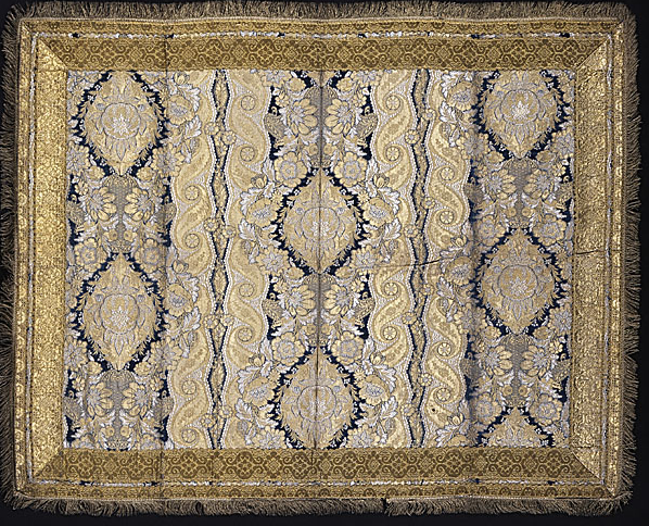 Russia, Cover of Lace-Patterned Brocade Textile, Silk, gold and silver metallic threads, silk chenille brocade, 63 x 49 1/2 in. (160.02 x 125.73 cm) overall with 2 inch fringe 54 x 67 1/2 Gift of Anton Lourie (M.75.68), Los Angeles County Museum of Art